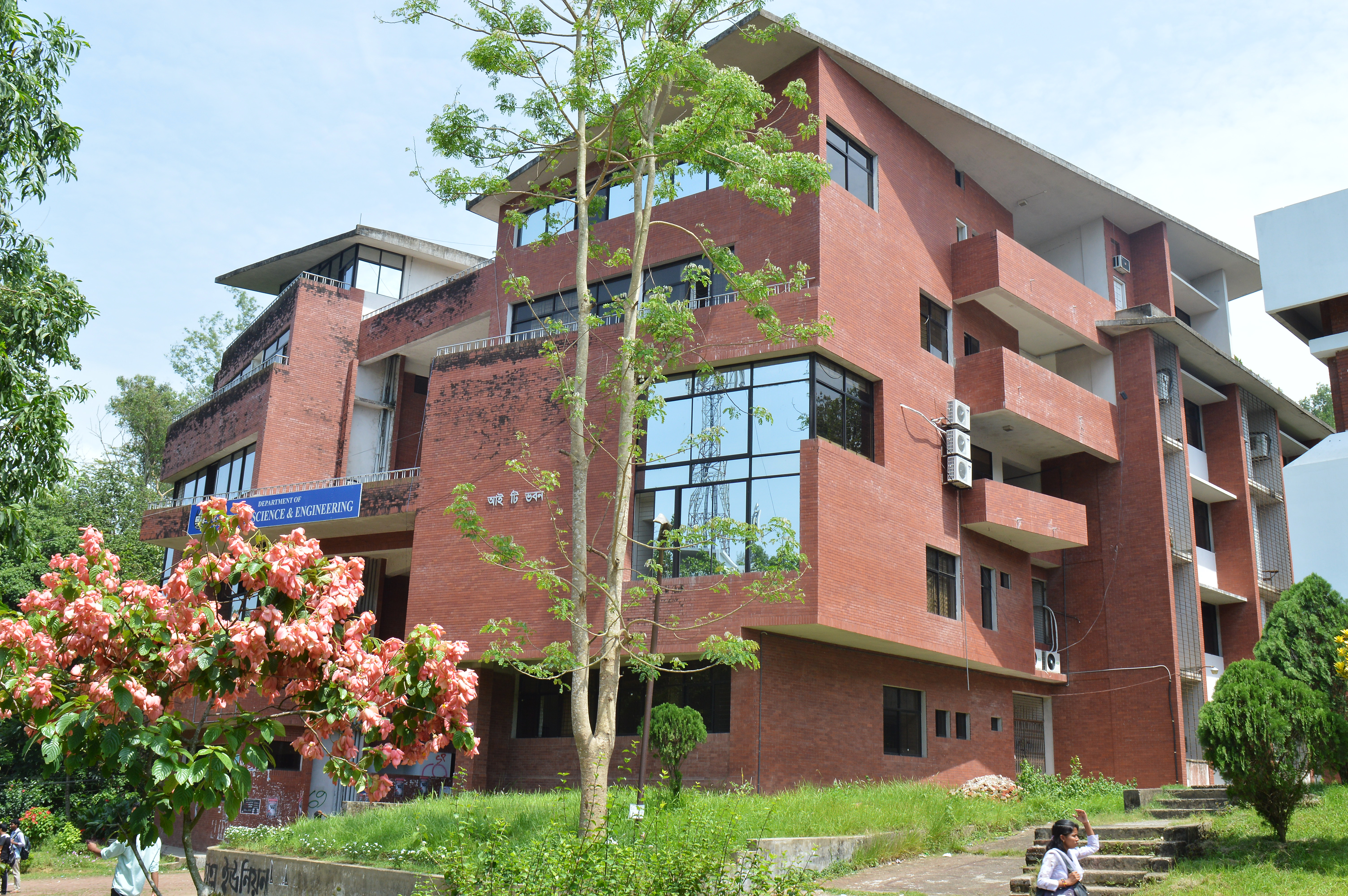 Department of Computer Science and Engineering, University of Chittagong